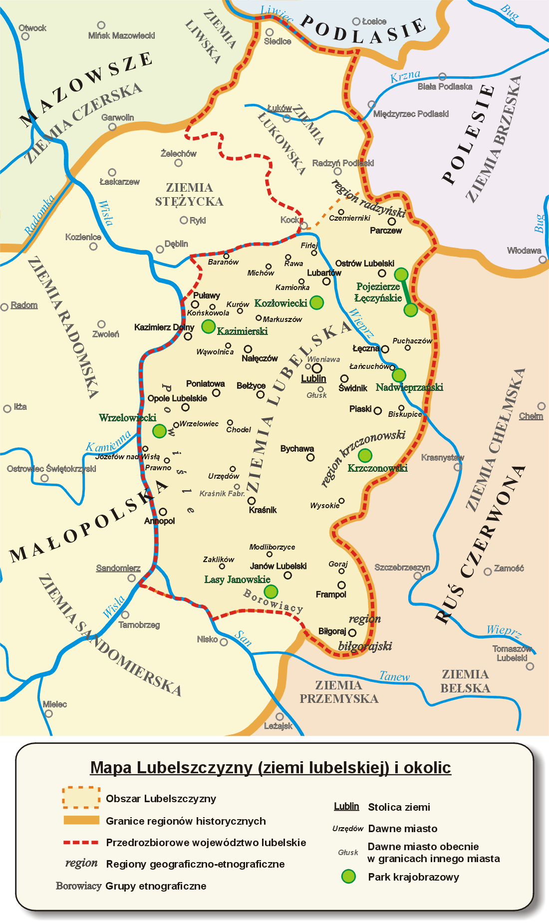 Lublin historical region map